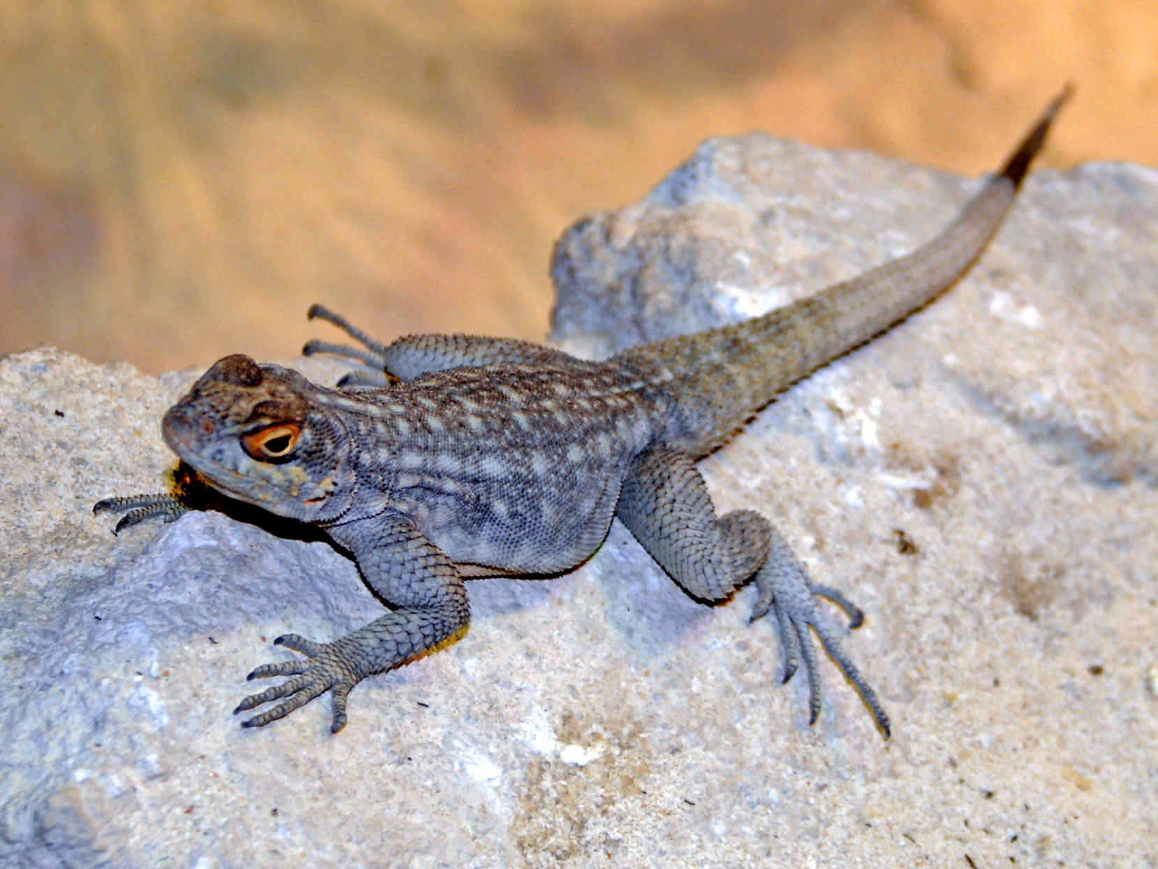 Oplurus quadrimaculatus. On display at the Aquarium of Genova